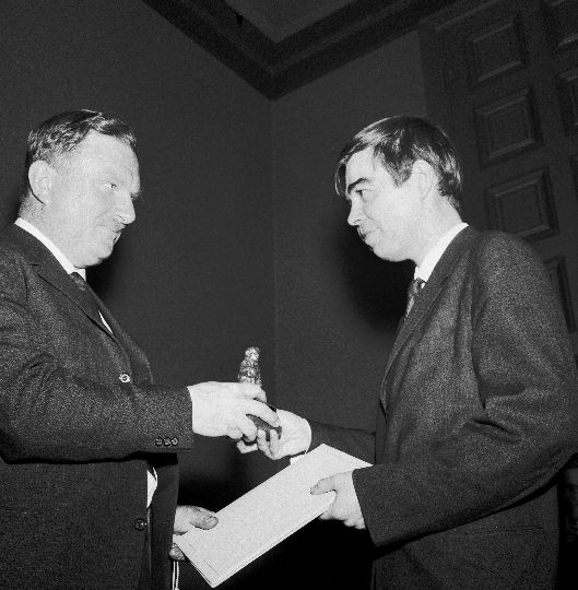 Photograph of the Finnish translator Lars Hamberg (1922–2006) presenting Pentti Saarikoski with the Agricola prize.